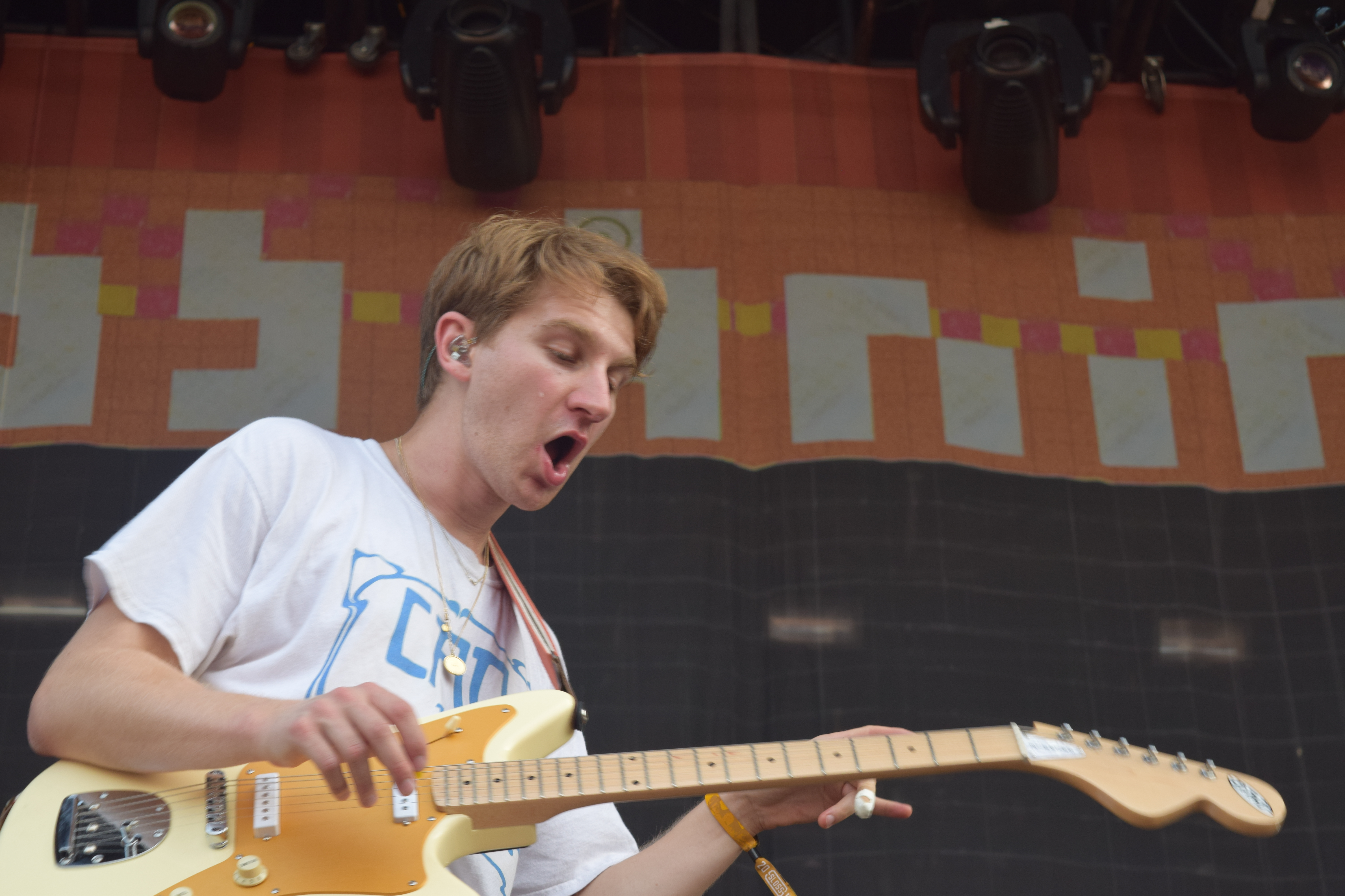 Glass Animals perform 2016.